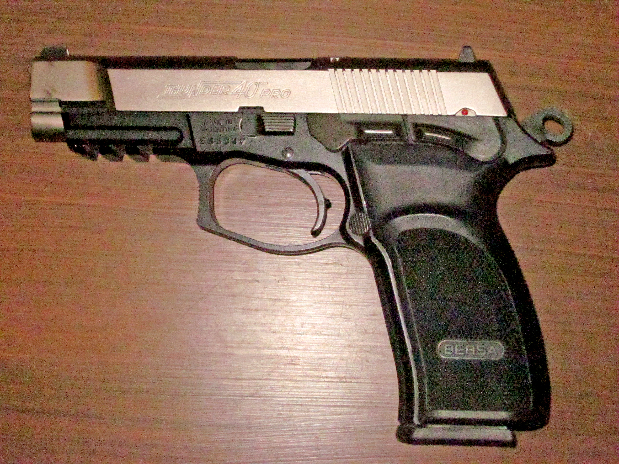 Bersa Thunder 40 Pro with duo tone finish